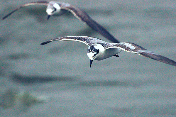 White-winged Tern Chlidonias leucopterus, Kazinga Channel, Uganda